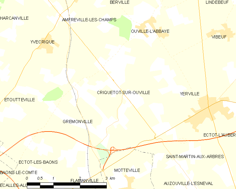 Map of French municipality Criquetot-sur-Ouville